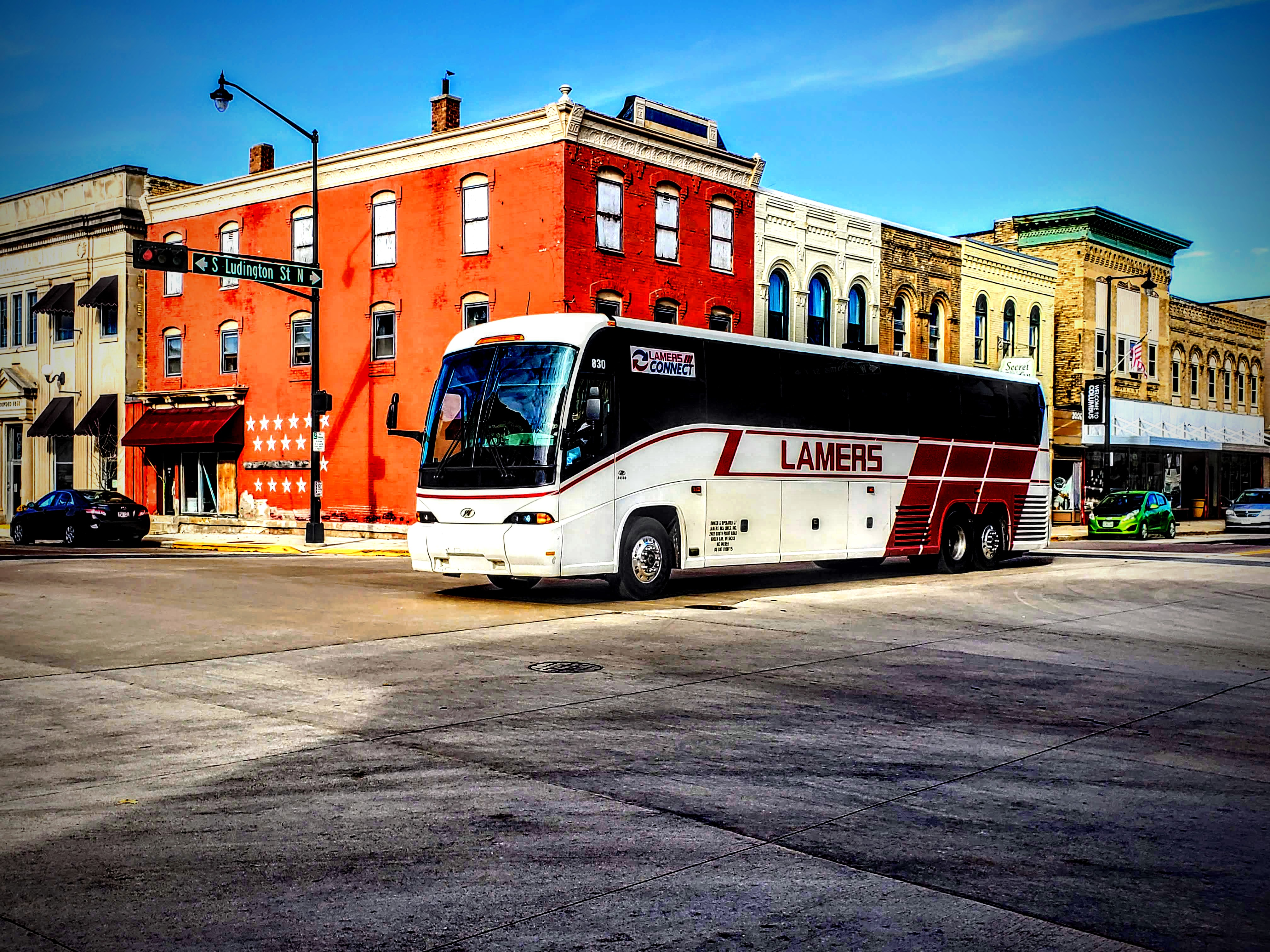 Lamers Bus Services